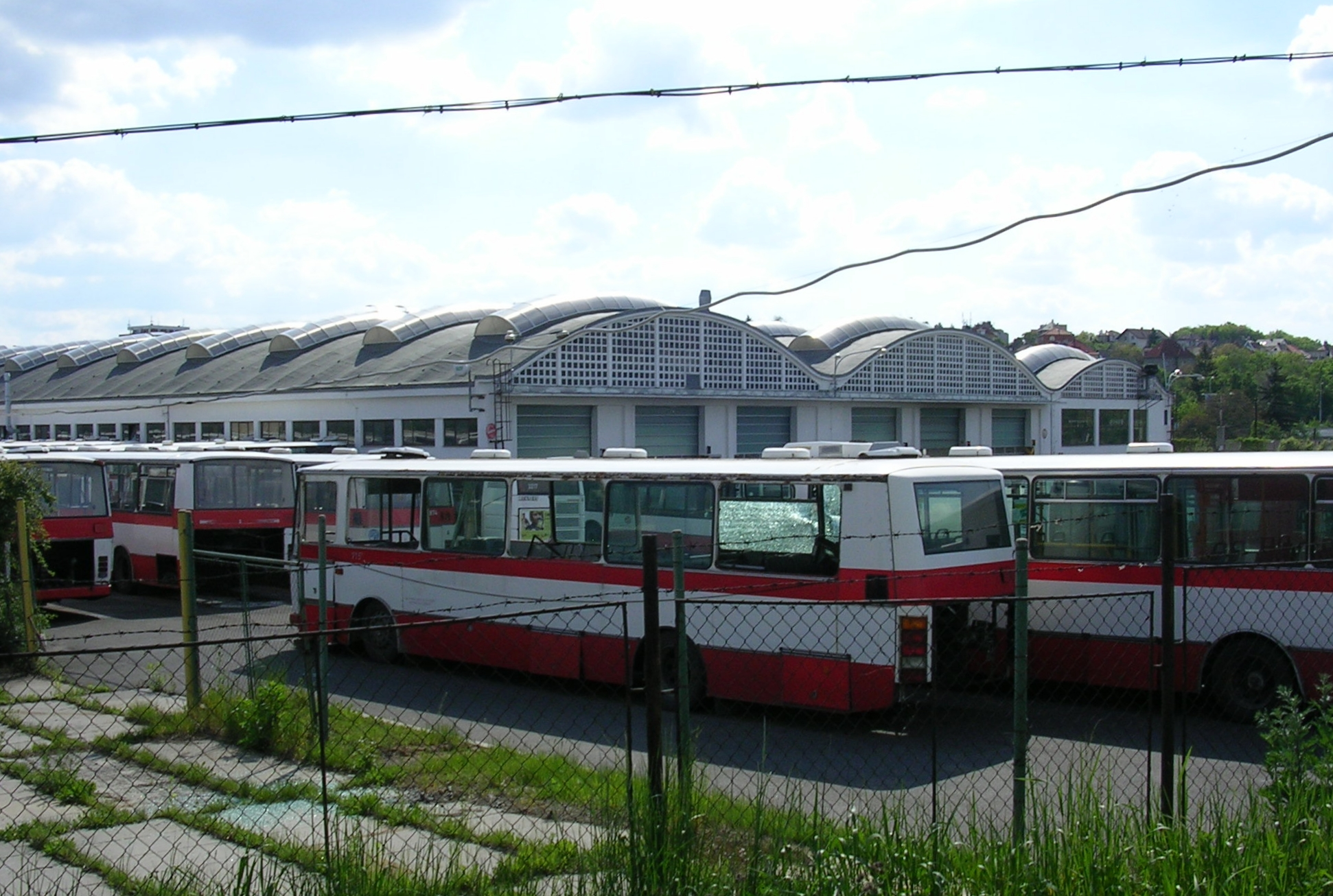 Michle, Prague, the Czech Republic.